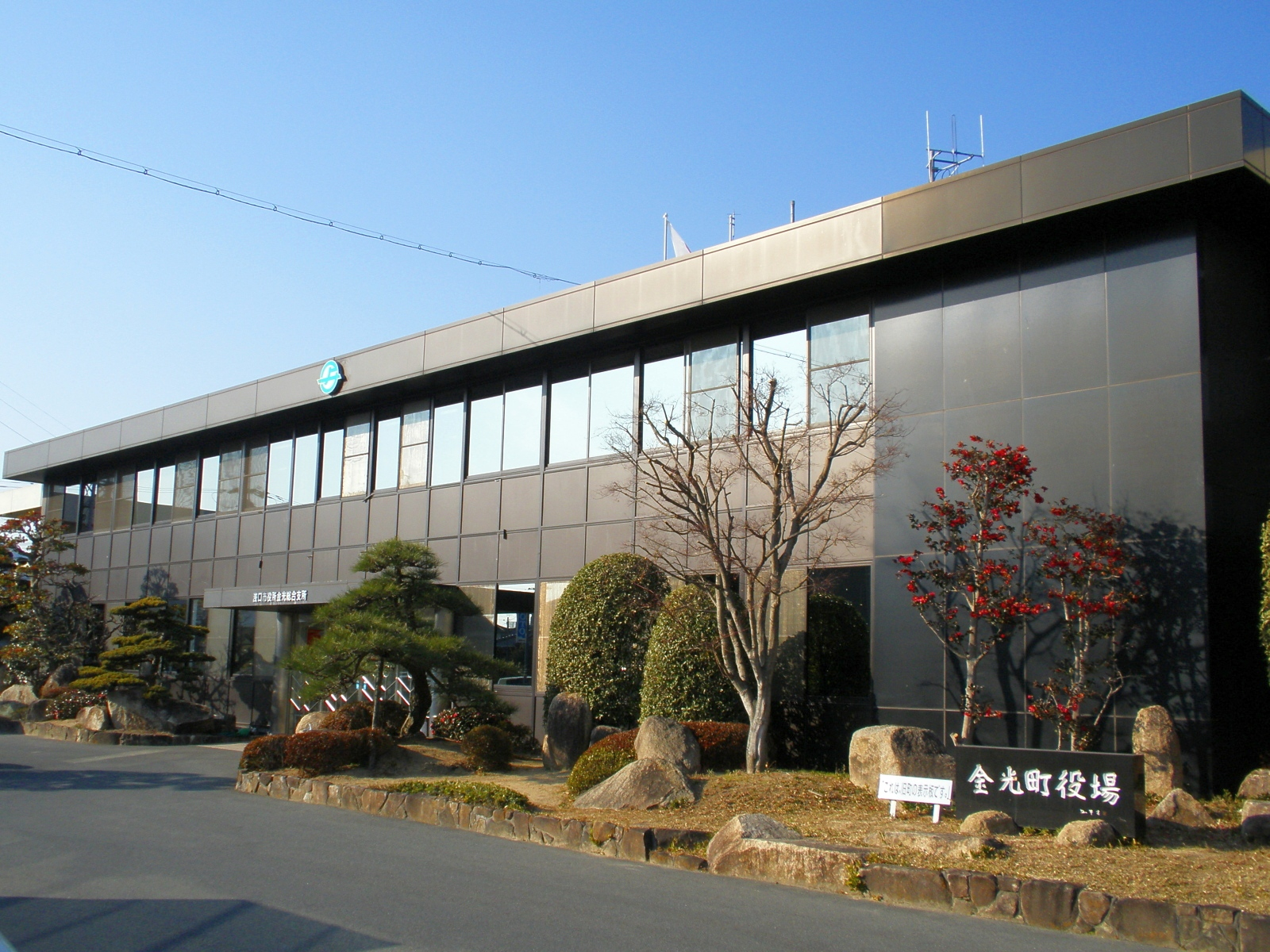 Asakuchi city office Konkō branch Former Konkō town office (1967.11 - 2006.3.20)